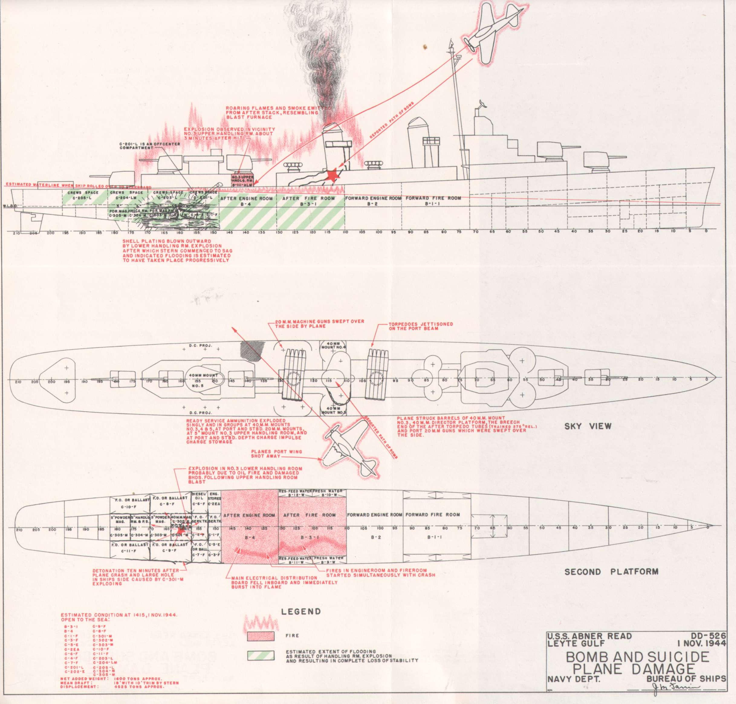 Plate XI from War Damage Report No.51 Detailing damage done to USS Abner Read (DD-526)